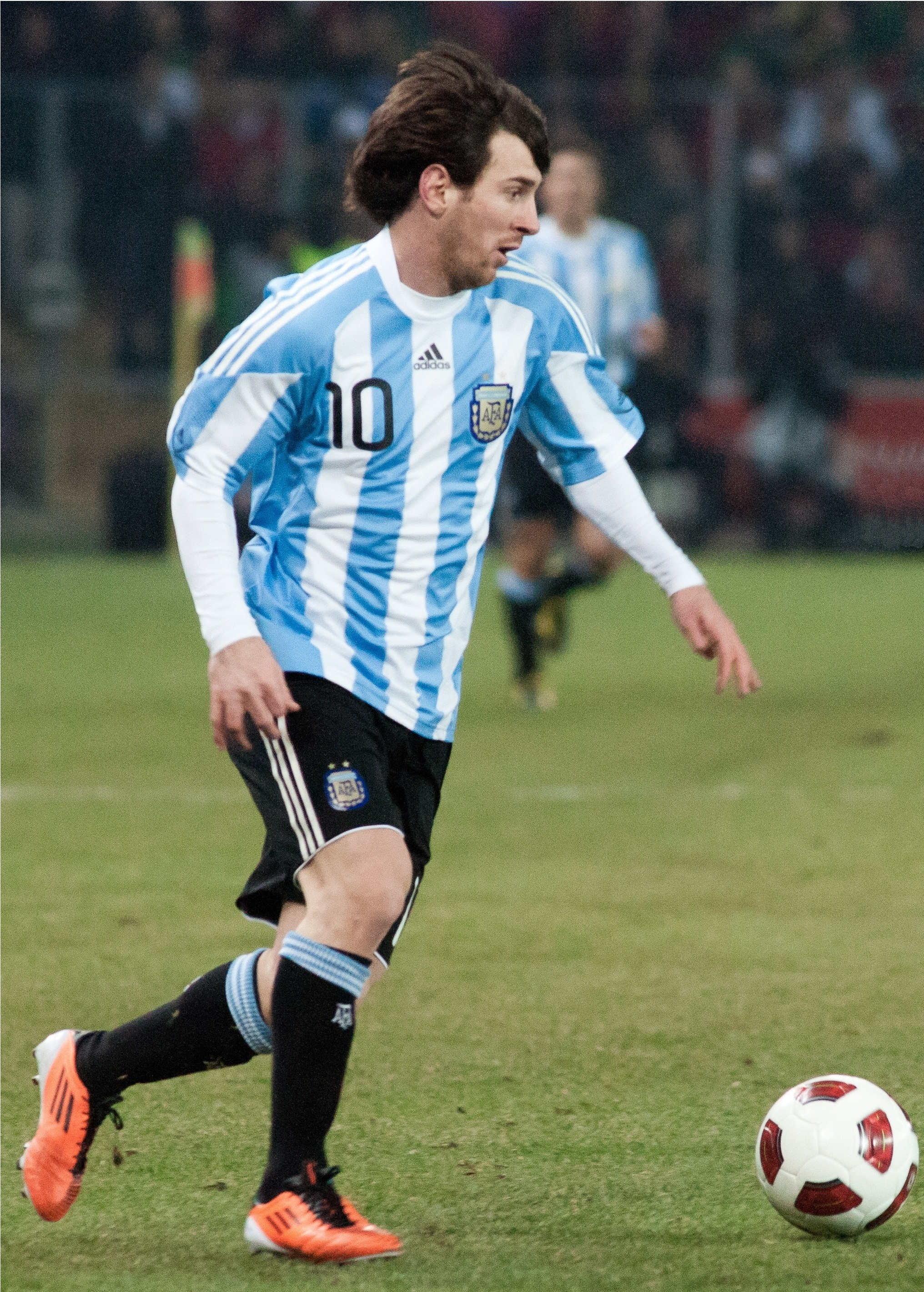 Lionel Messi, player of Argentina national football team.